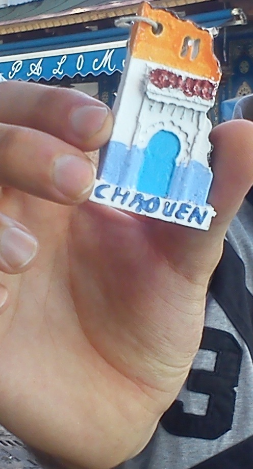 A Souvenir from Chaouen